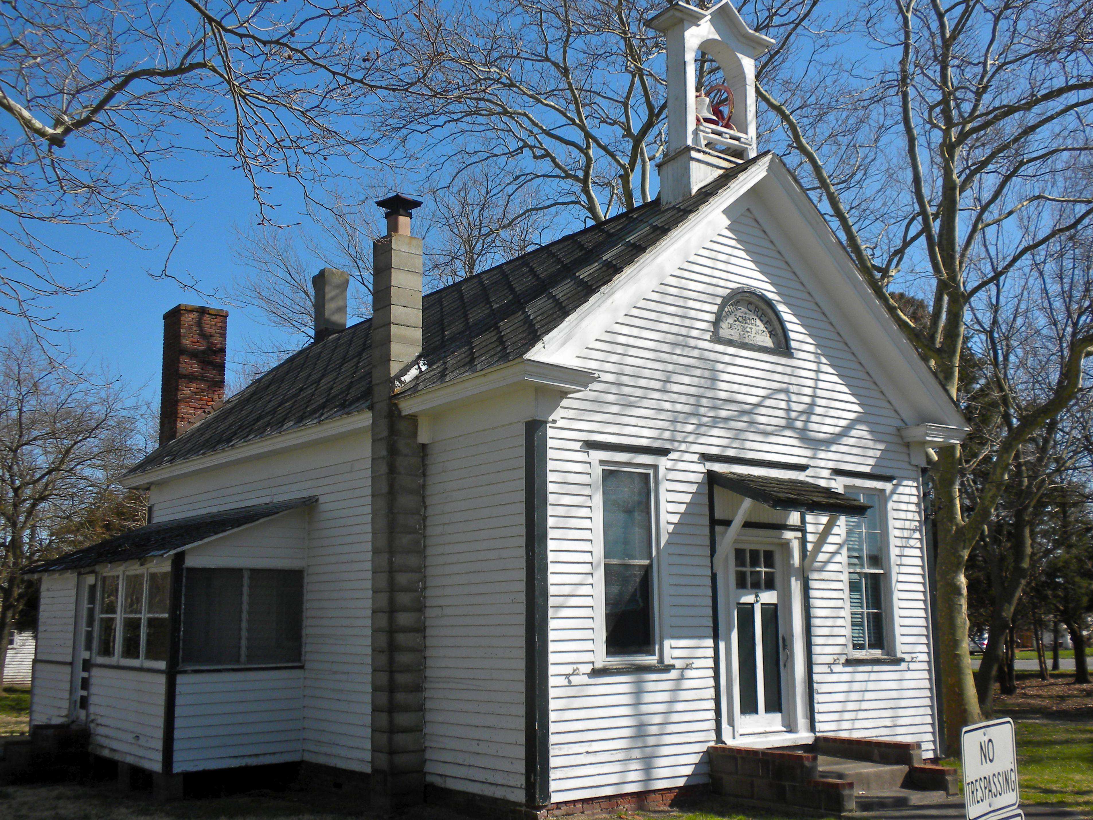 Fishing Creek Schoolhouse on NRHP since March 6, 1980. At 2102 Bayshore Rd. in Villas, Cape May County, New Jersey.